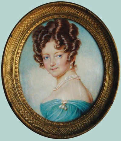 Comtesse Julie de Stroganoff, Jean Urban Guérin